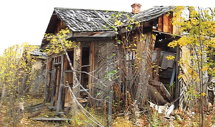 Here is one of the typical houses with the three "front buildings" (you can only see two of them) in the civil area of the old settlement Jermakowo.